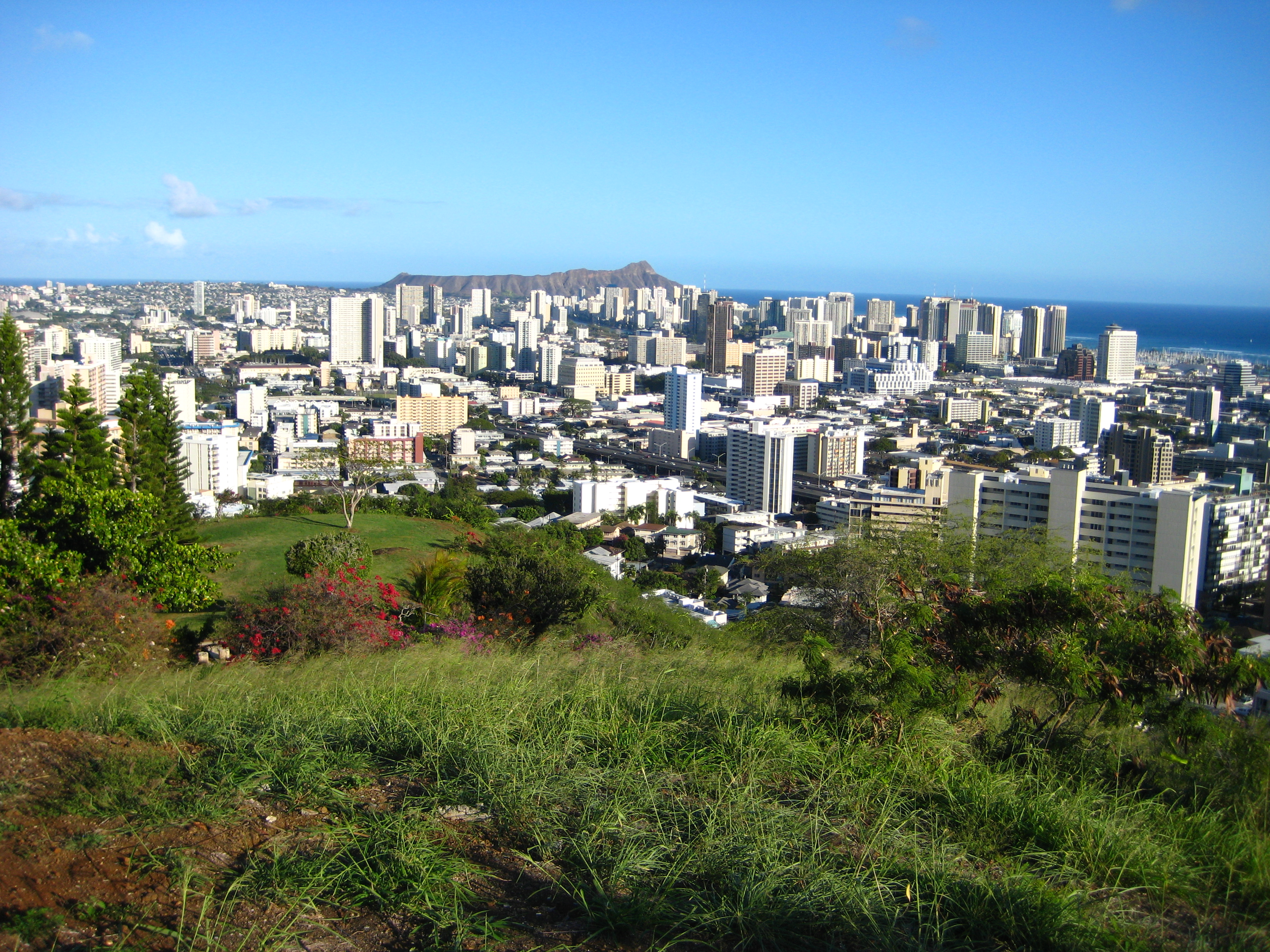 Another great viewpoint above Honolulu, the National Memorial Cemetery of the Pacific or "Punchbowl".